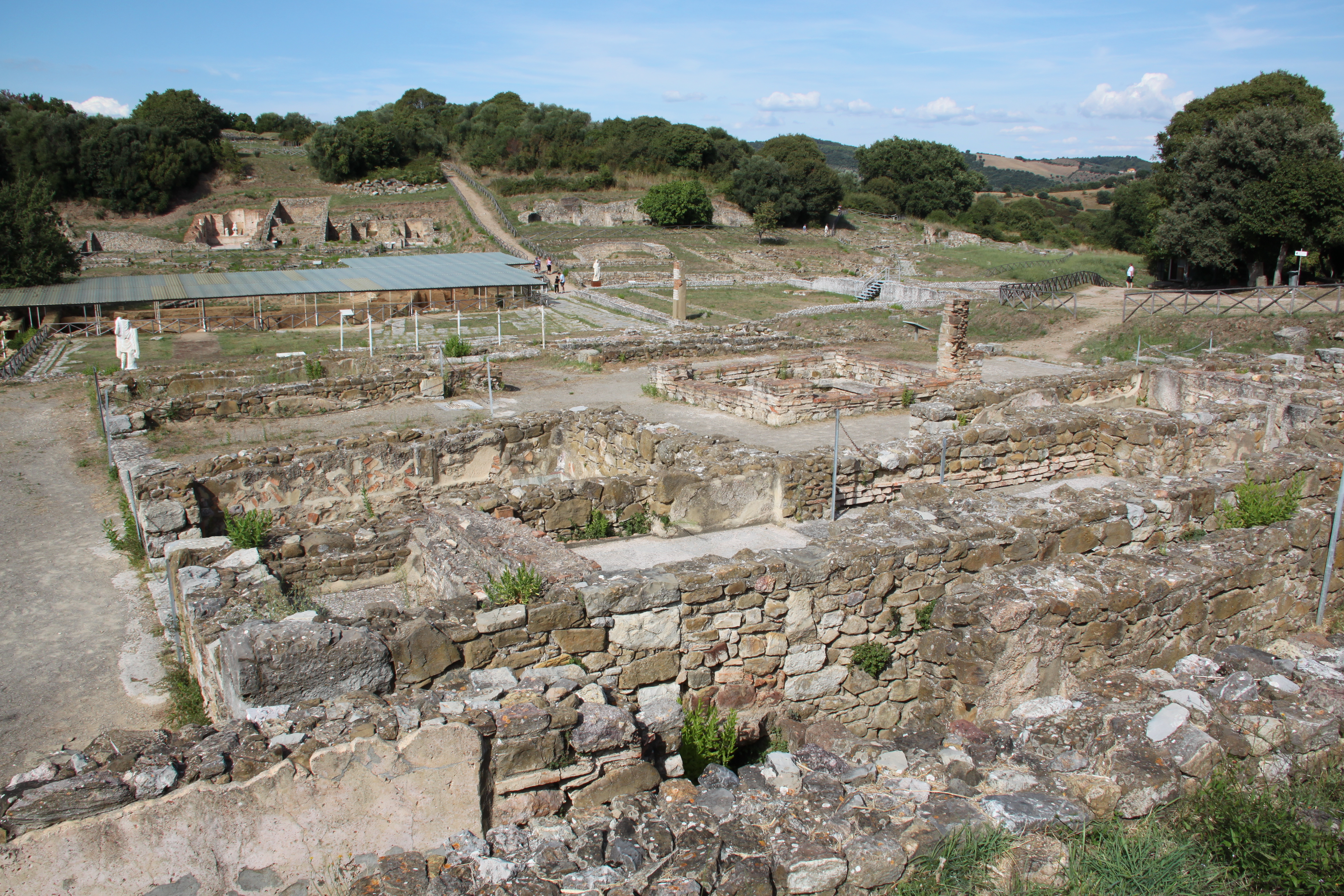 Archaeological Park of Roselle: central area (as seen from the south-west) Left of the Roman road: foreground: House of Mosaics; Flamines Augustales; temple middle: forum; (canopied:) Etruscan house with an enclosure and house with two rooms background: Basilica dei Bassi; curia (i.e. meeting house) Right of the Roman road: basilica; shops; thermae (i.e. public baths)